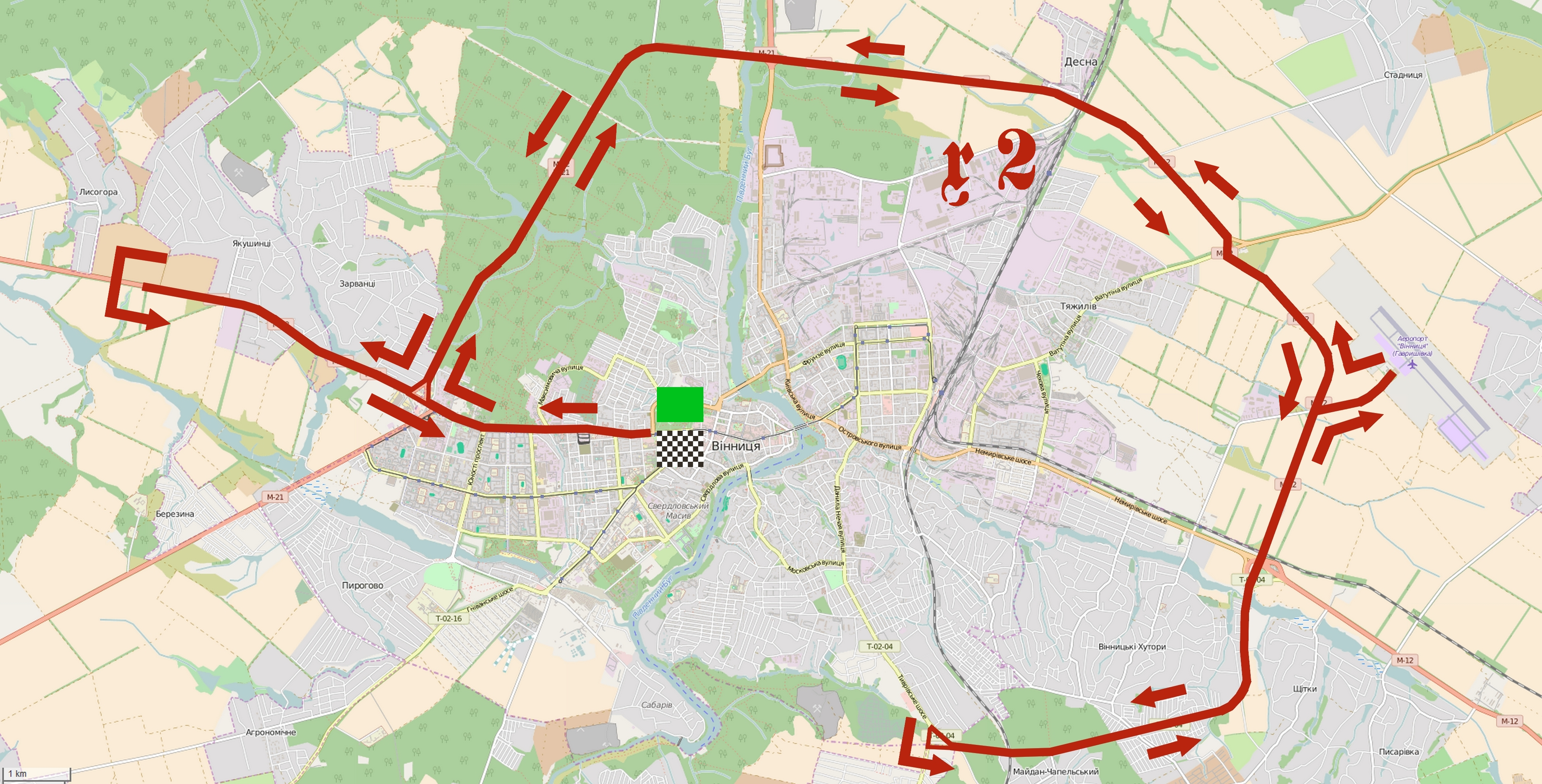 Parcours du Grand Prix ISD 2015. This map may be incomplete, and may contain errors. Don't rely solely on it for navigation.